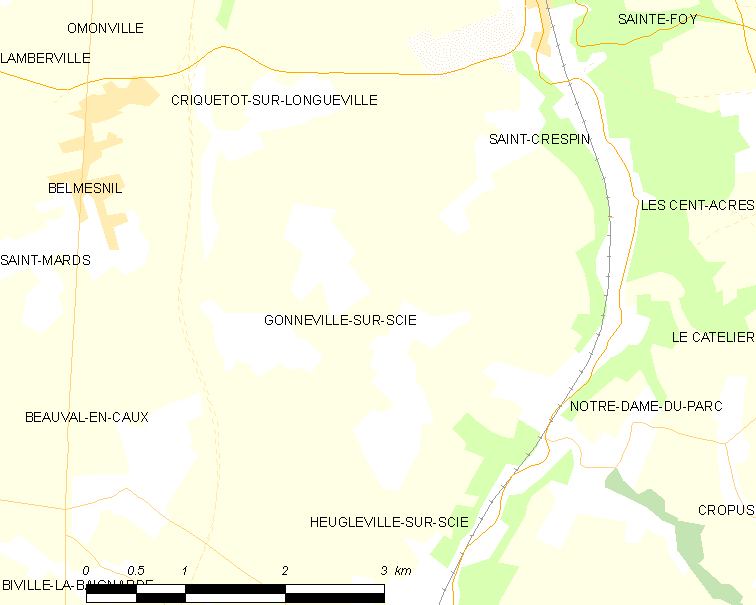 Map of French municipality Gonneville-sur-Scie